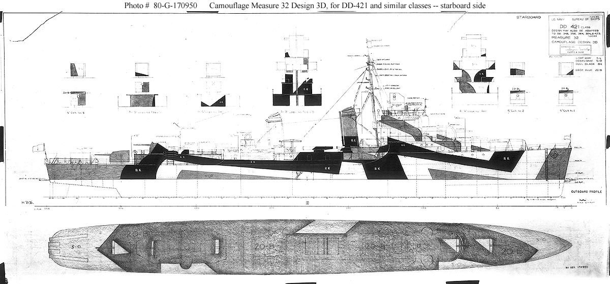 BuShips drawing giving the camouflage pattern MS-32/3D for DD-421 (Benson-Gleaves) class destroyers